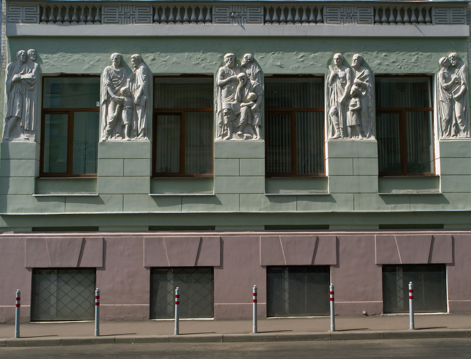 Merzlyakovsky Lane, Moscow. Musical college based in old Flerov's private school